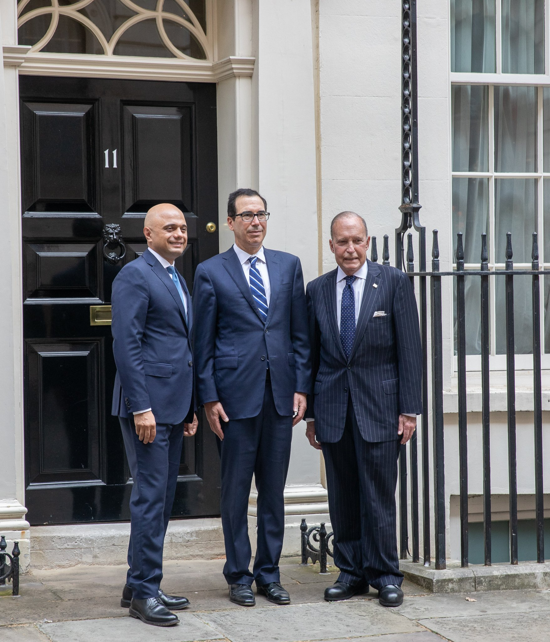 Today US Treasury Secretary Steven Mnuchin and Director of the National Economic Council, Larry Kudlow, are in the UK to meet with Chancellor Sajid Javid on increasing US-UK economic growth & our shared prosperity